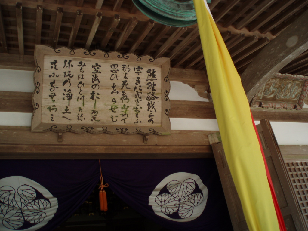 Sacred_chant_tablet_(AMIDADERA-temple,_Nachi-Katsuura,_Wakayama)